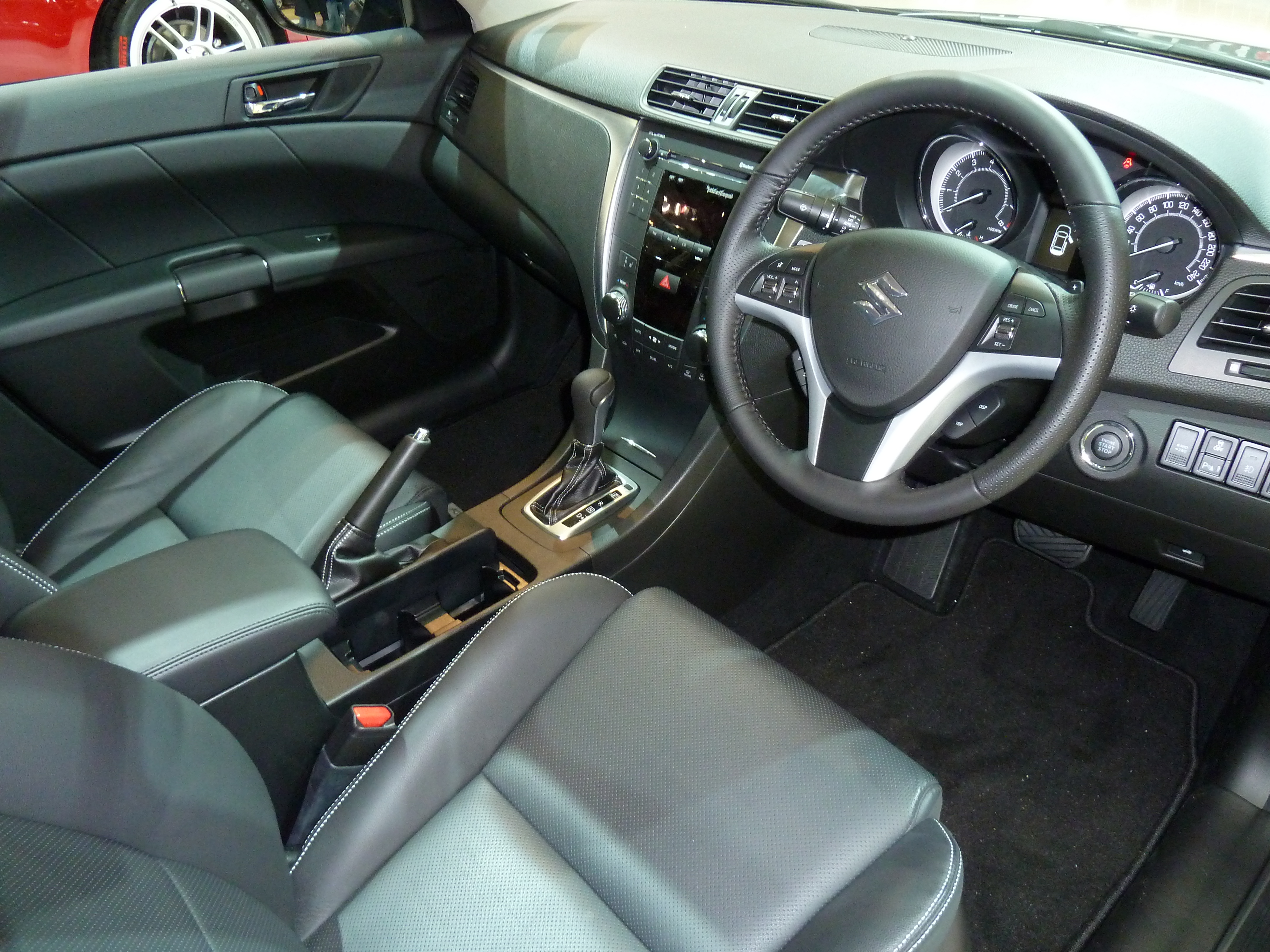 2010 Suzuki Kizashi (FR) Sport sedan. Photographed at the 2010 Australian International Motor Show, Sydney, New South Wales, Australia.